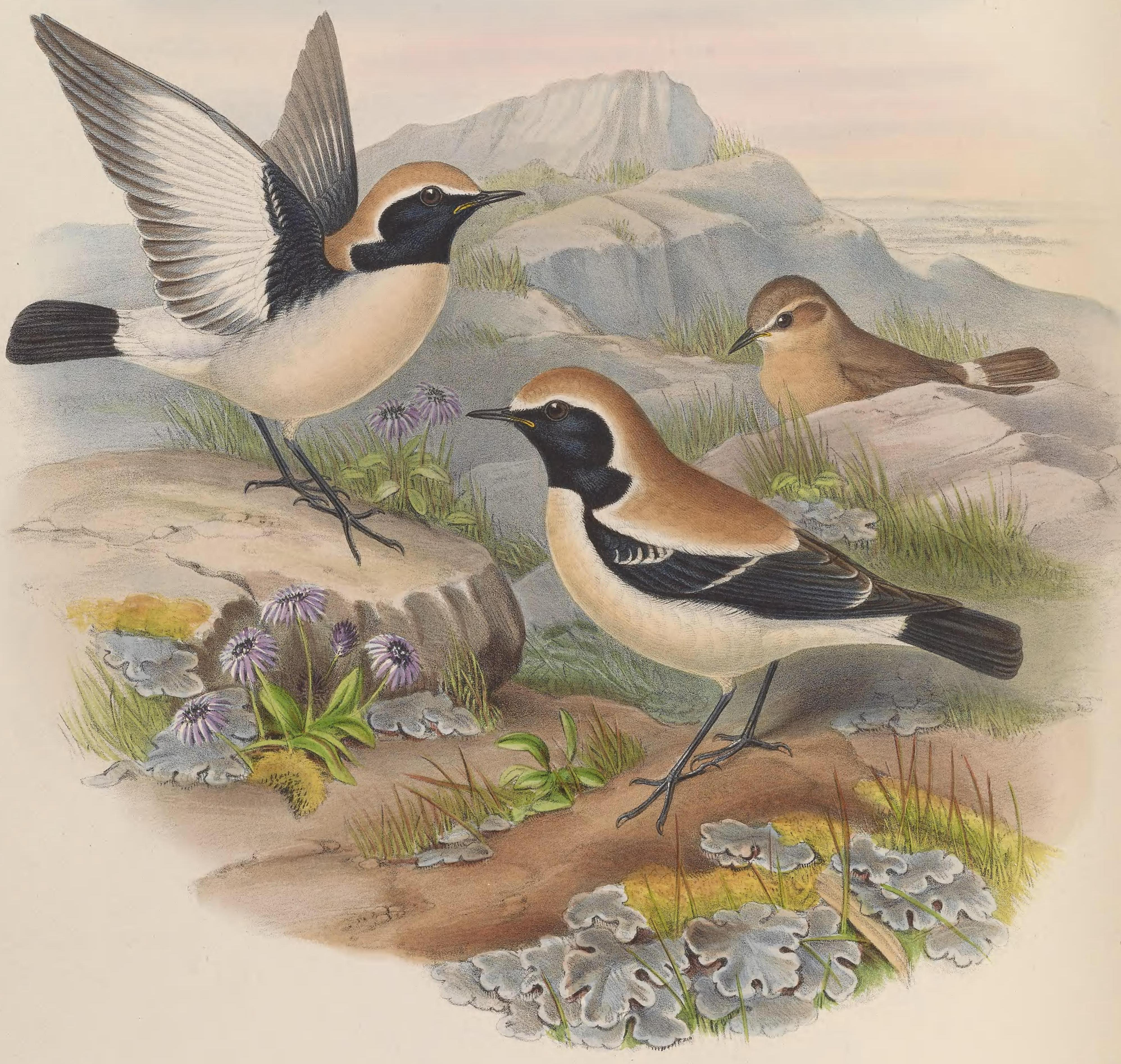 Oenanthe deserti, John Gould